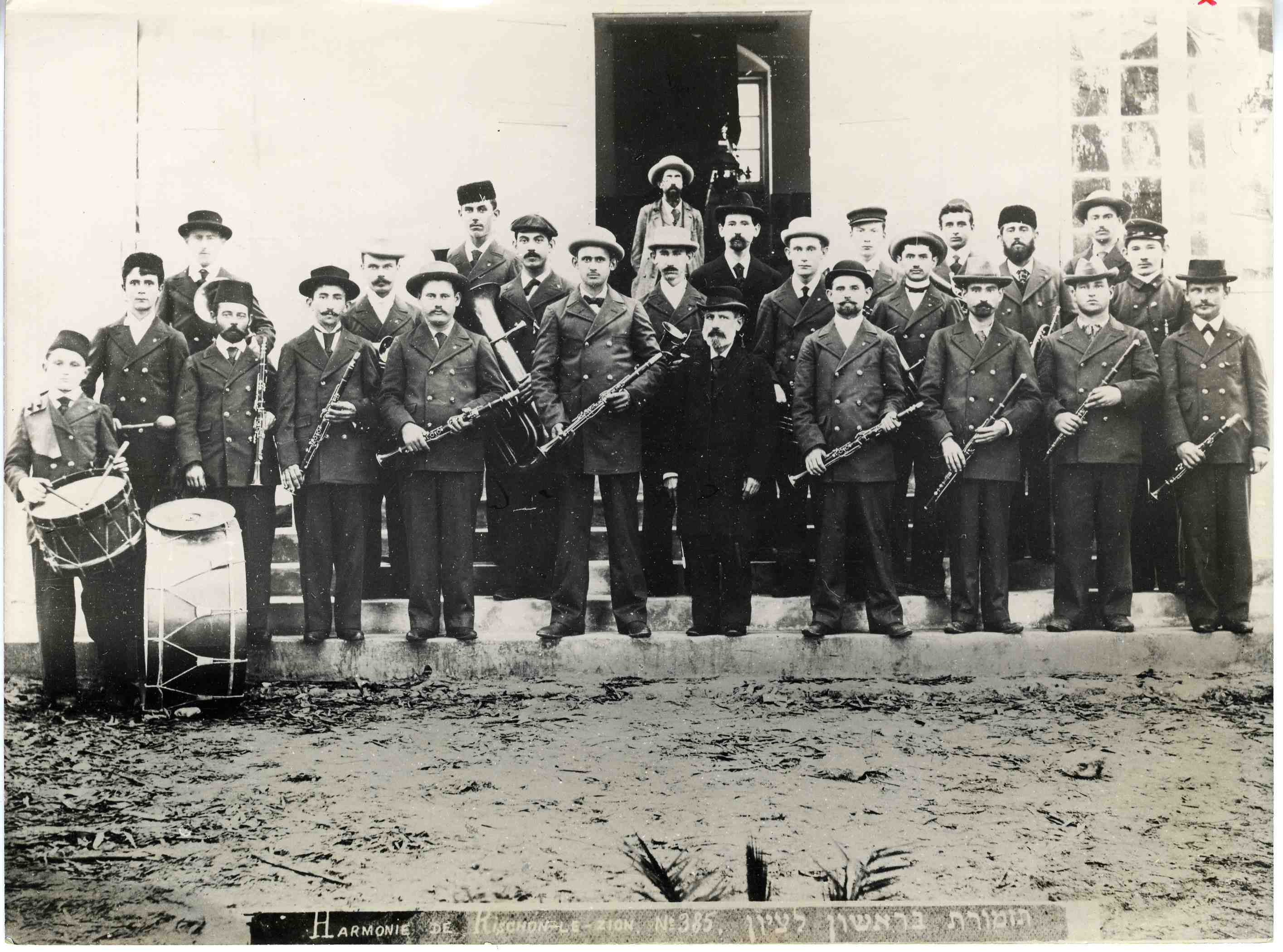 Entertainment